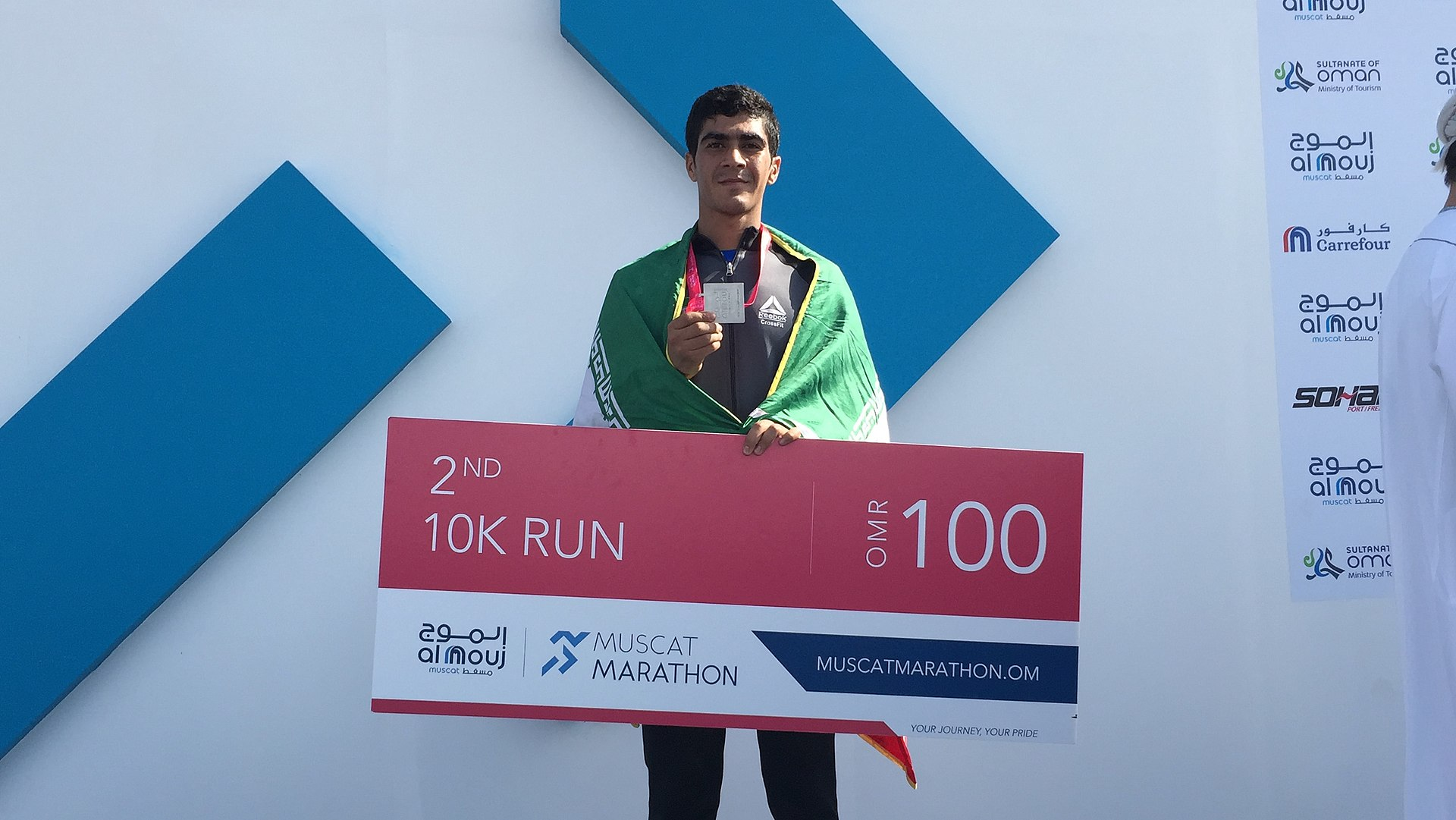 Baghri's first presence in Muscat Marathon 2019